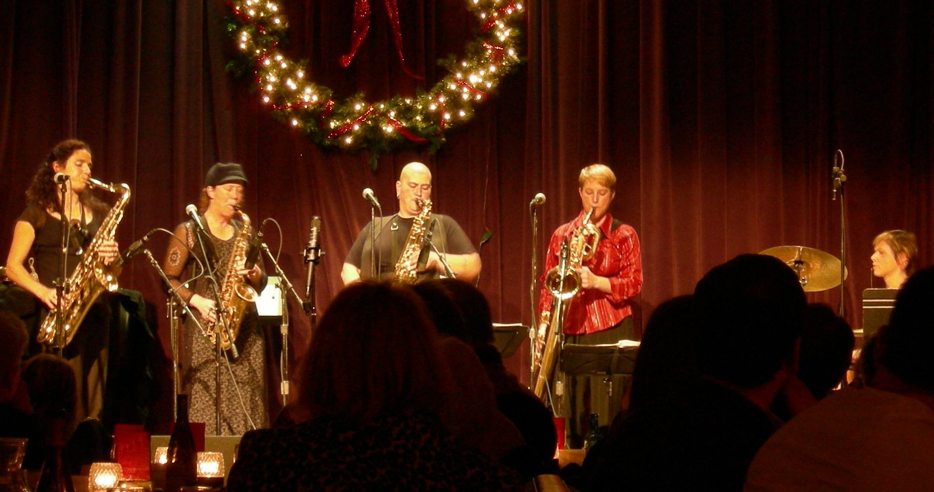 The Billy Tipton Memorial Saxophone Quartet at Jazz Alley, Seattle, Washington. Left to right: Jessica Lurie, Amy Denio, Tina Richerson, Tobi Stone, Faith Stankevich